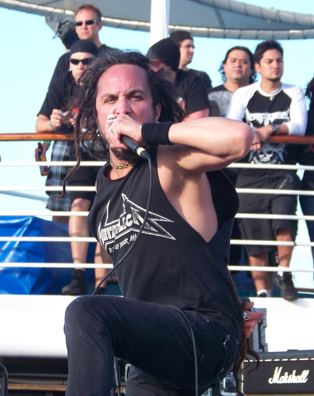 Somewhere between Miami and Cozumel. Mark Osegueda, Singer of Death Angel at the 70000 Tons of Metal Festival.